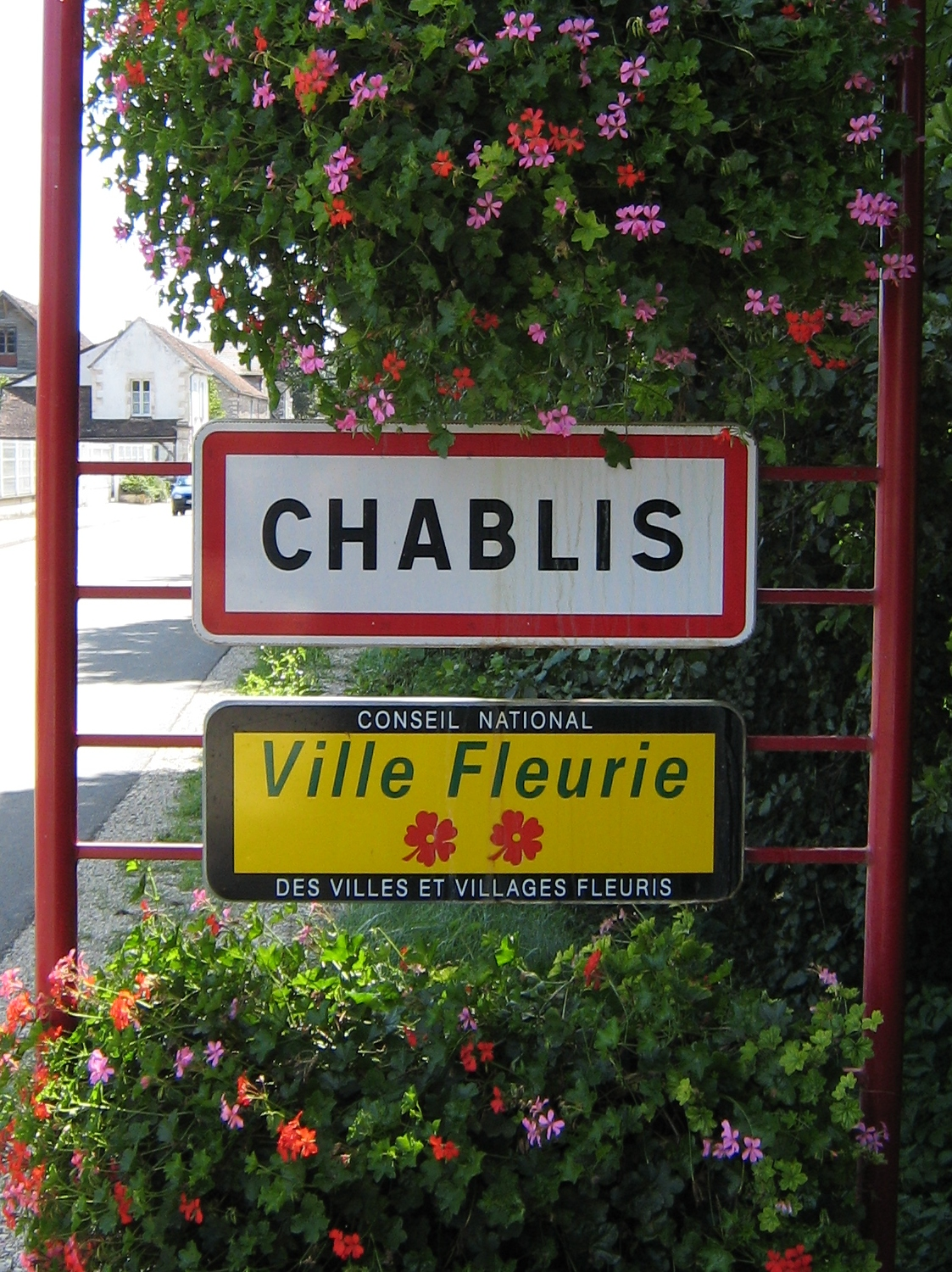 Sign on the D91 in the north of Chablis, Burgundy.